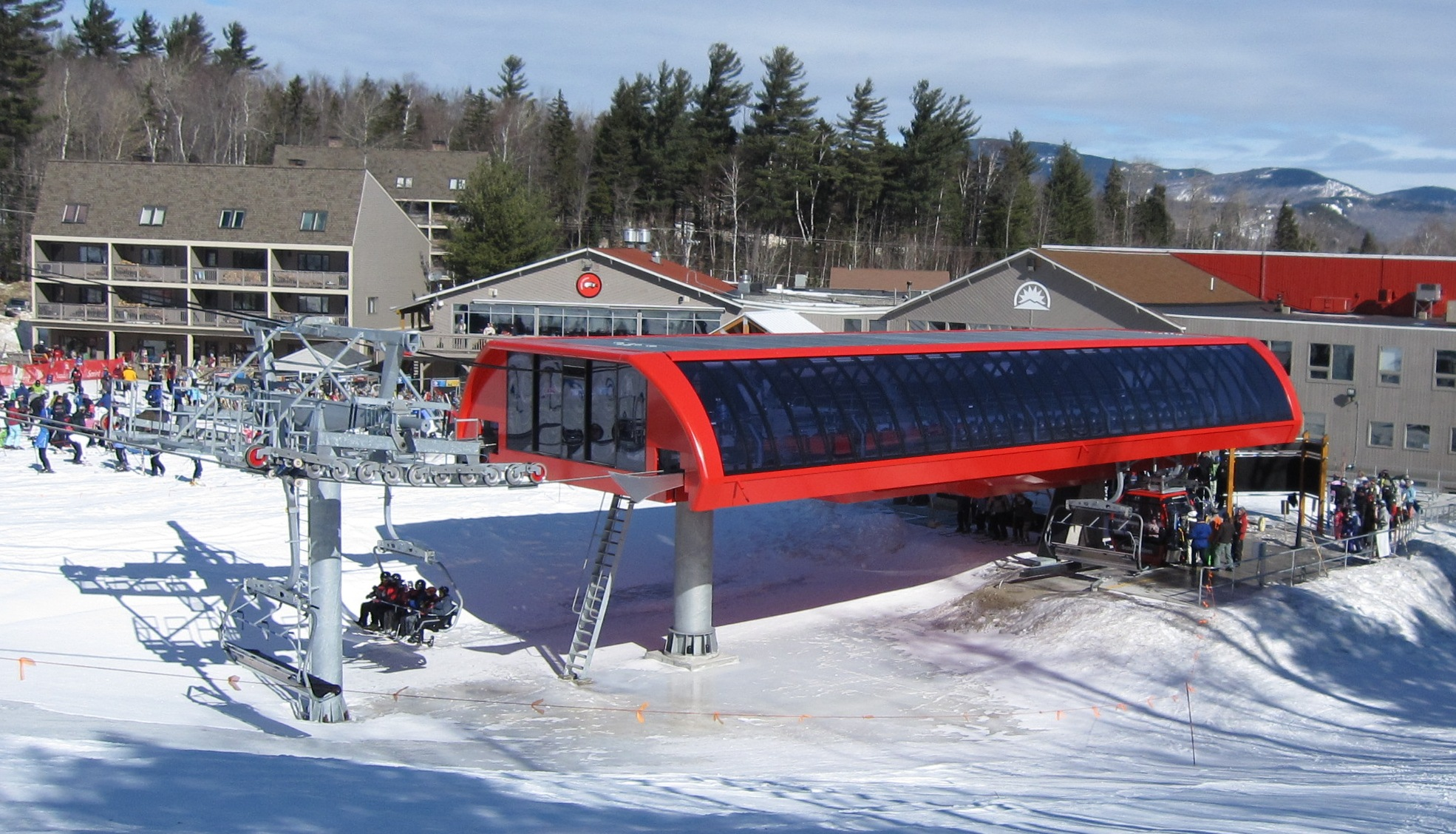 A Doppelmayr CTEC Chondola at Sunday River, Maine